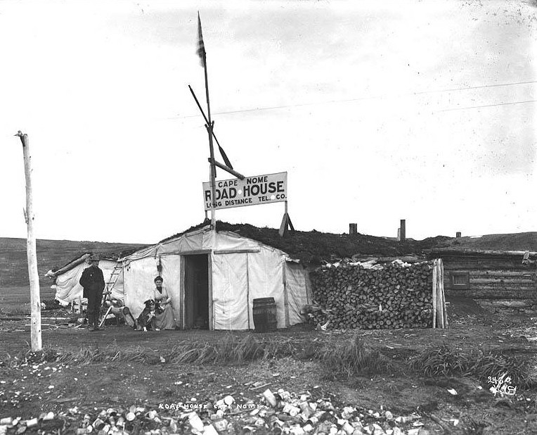 Road house Cape Nome, Alaska, 1901